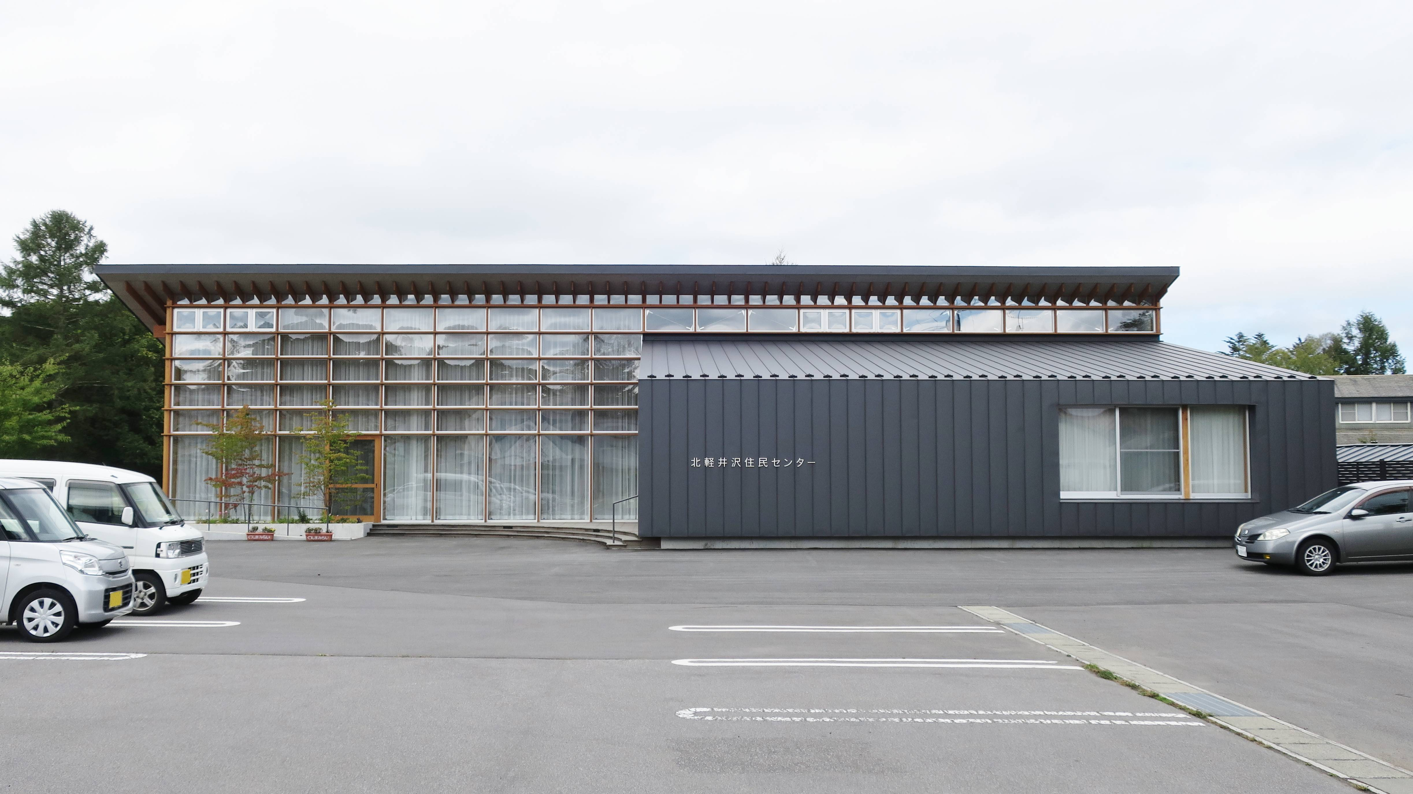 Kitakaruizawa Jumin Center (Naganohara, Gunma).